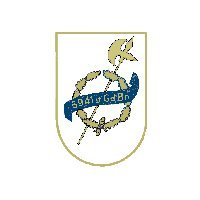 Unit Crest, 6941st Guard Battalion